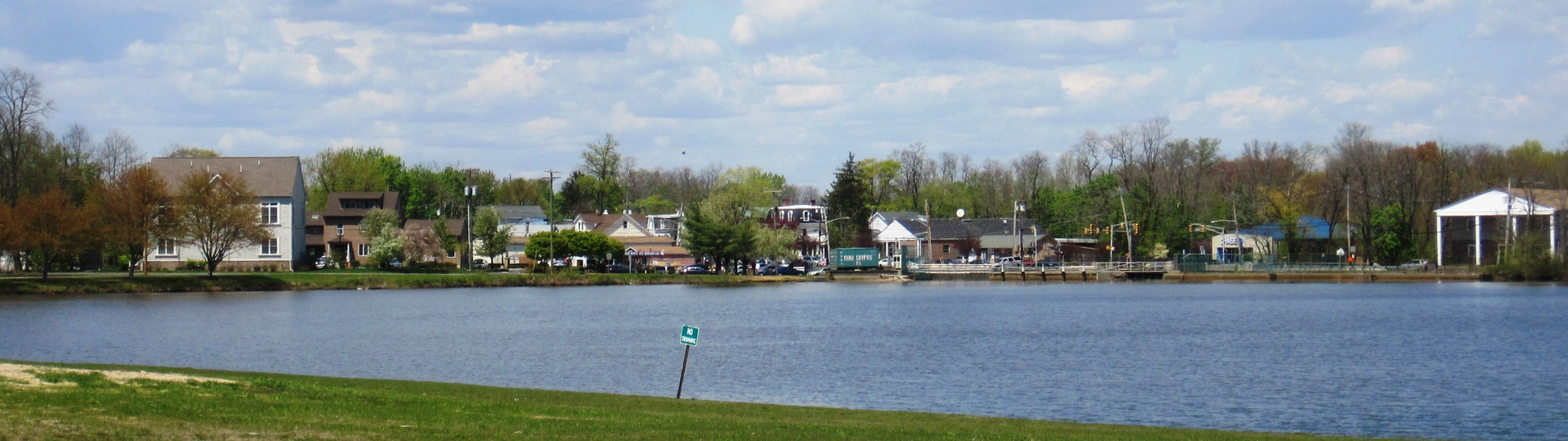 Photo showing Jamesburg as seen from Thompson Park (looking across Lake Manalapan).